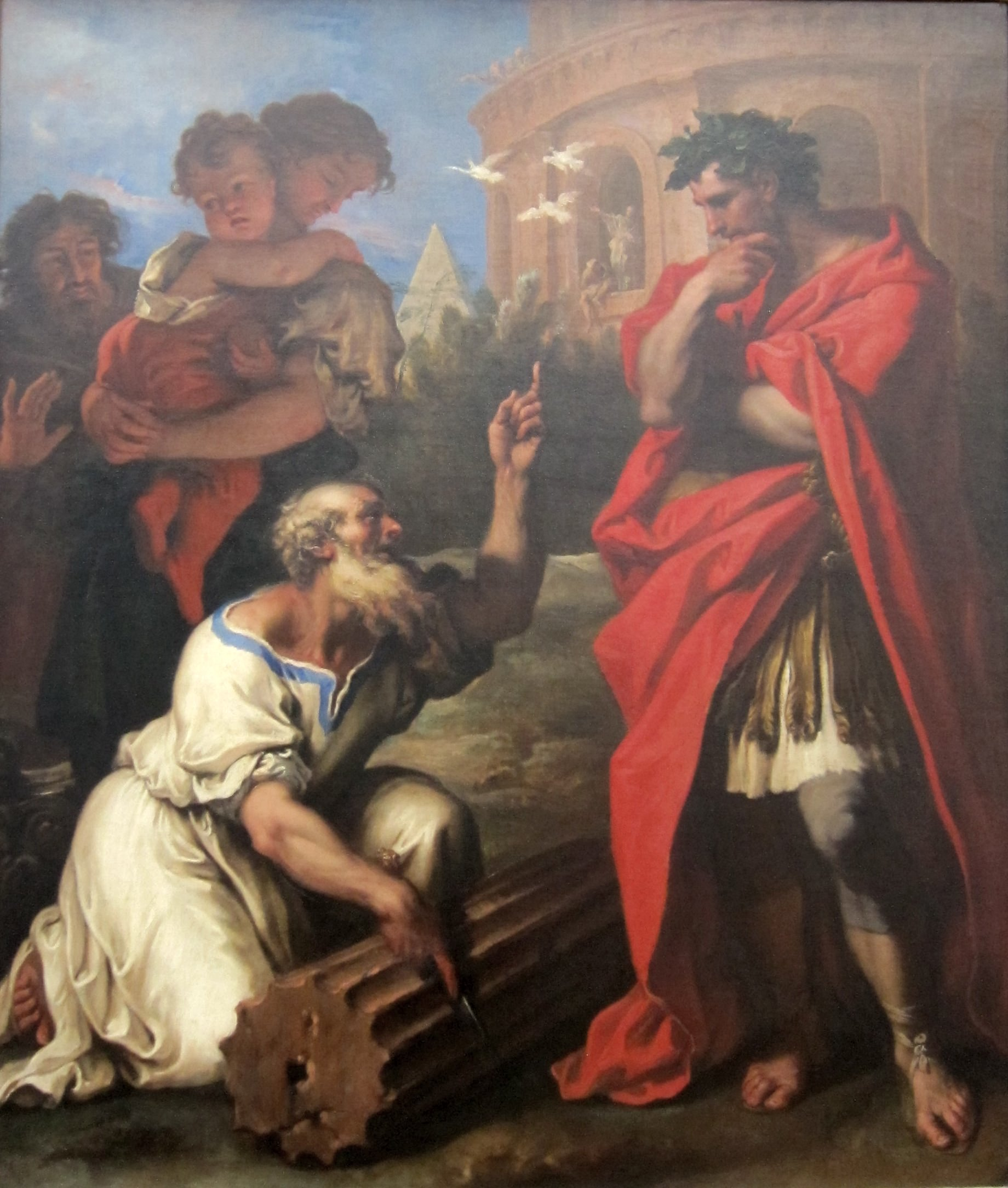 Tarquin the Elder Consulting Attius Navius, oil on canvas painting by Sebastiano Ricci, c. 1690, Getty Center